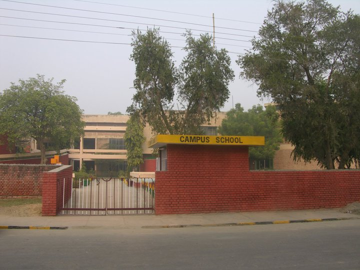 This is the entrance of Campus School CCS HAU, Hisar.